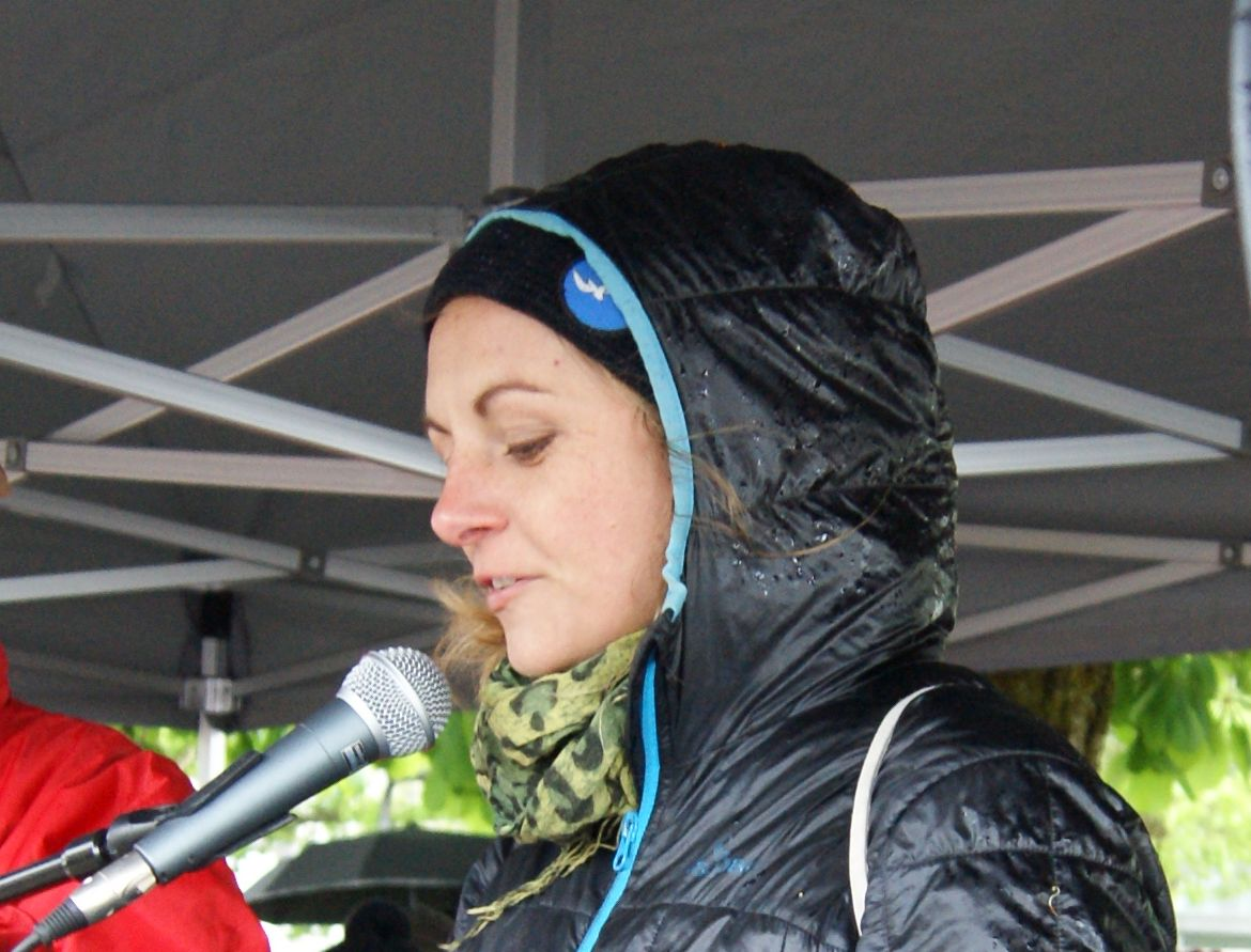 Pia Klemp as a speaker at the 19th Sunday demonstration in Vorarlberg. On 5.5.2019 in Bregenz. About 1000 people gathered for a demonstration.